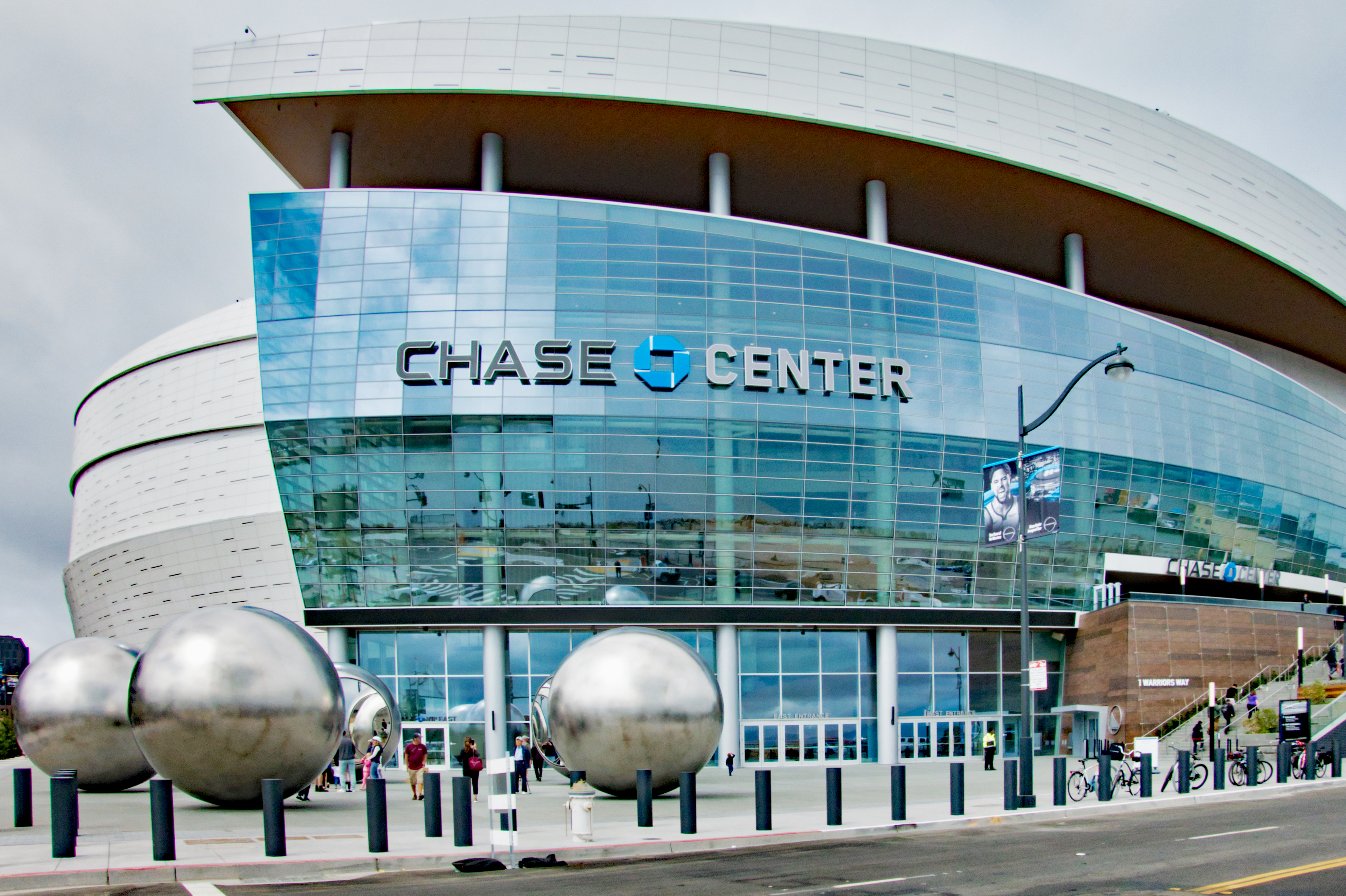 Chase Center, in San Francisco's Mission Bay, will be the new home of the Golden State Warriors, who played in Oakland from 1971 until last season. The first event at Chase Center was a Metallica concert. There are mirrors inside the balls on the lower left, so you can stand in front of one and see many reflections of yourself. Popular for selfies.